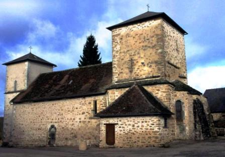 Roman church of Meuzac, Haute-Vienne, Limousin, France.